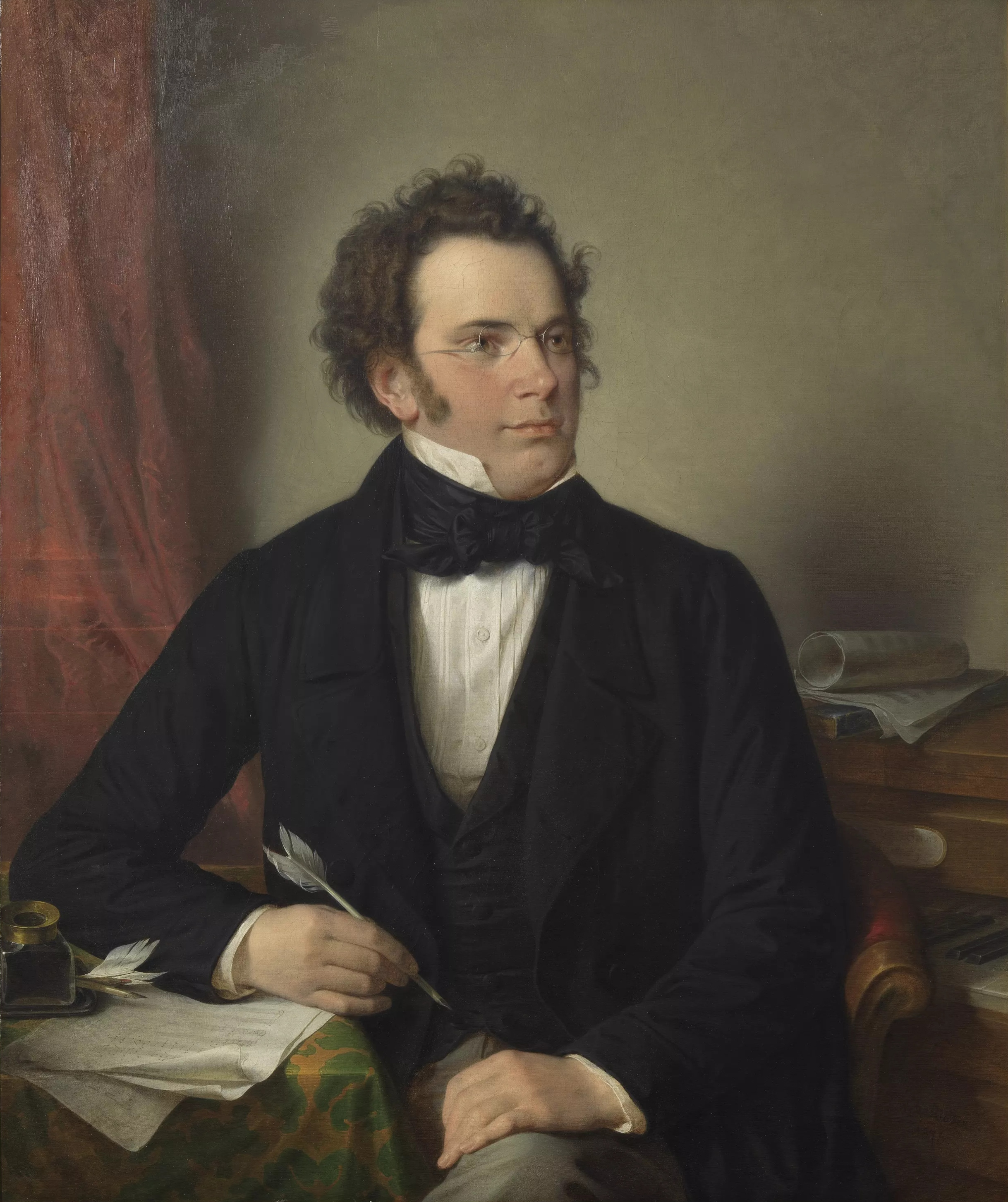 oilmedium QS:P186,Q296955 painting, After watercolormedium QS:P186,Q22915256 (1825)